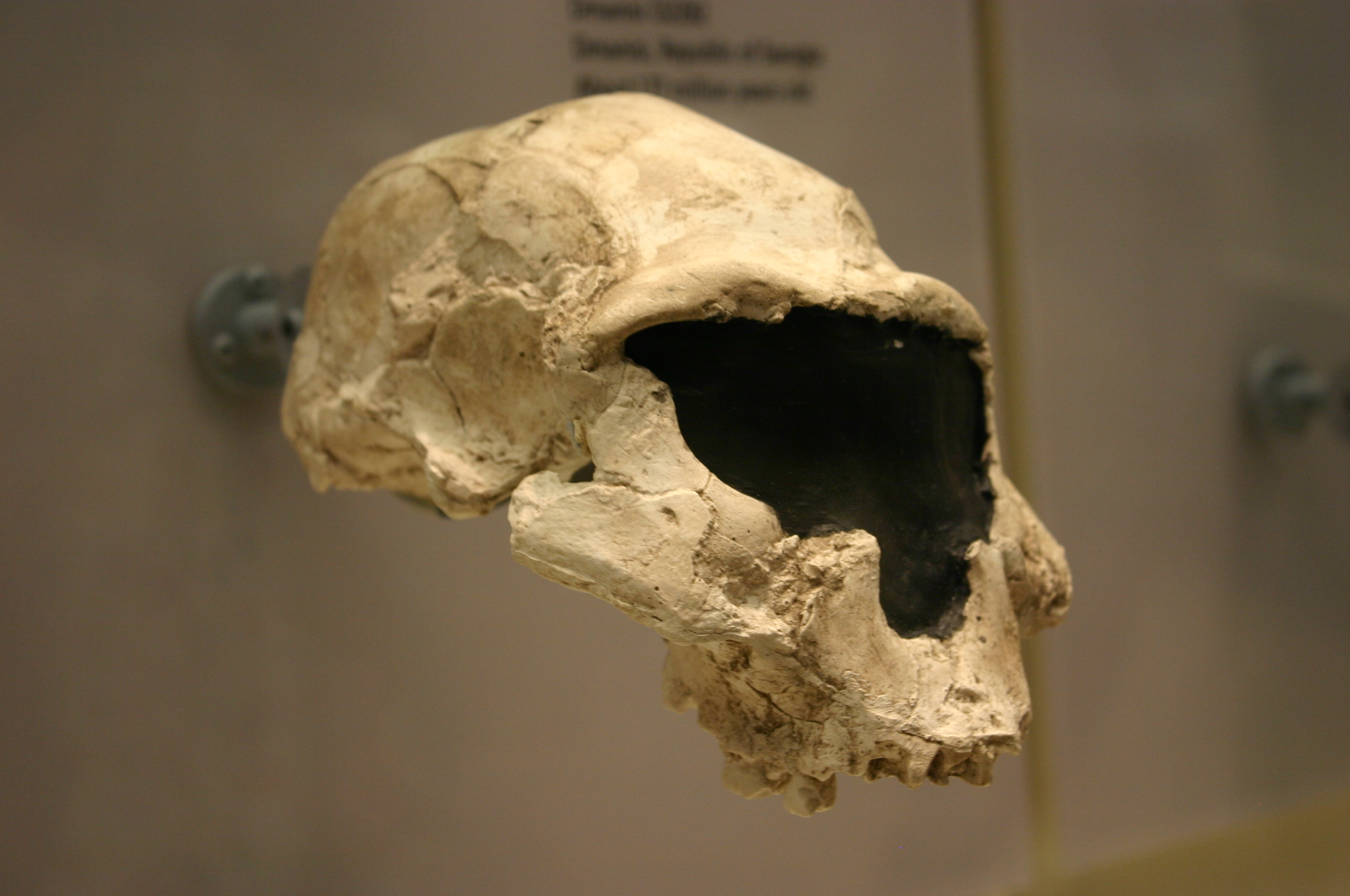 Taken at the David H. Koch Hall of Human Origins at the Smithsonian Natural History Museum.